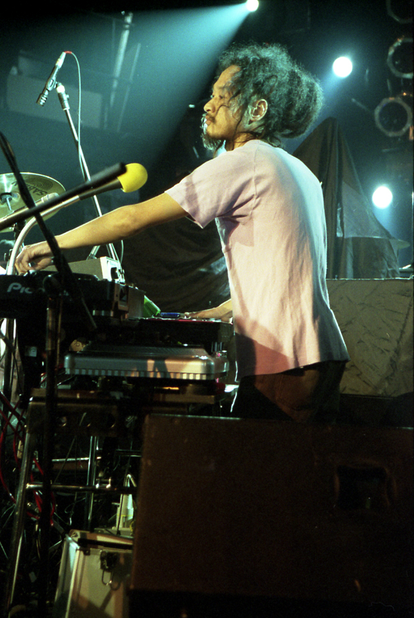 Yamataka Eye of the Boredoms at All Tomorrow's Parties 2004